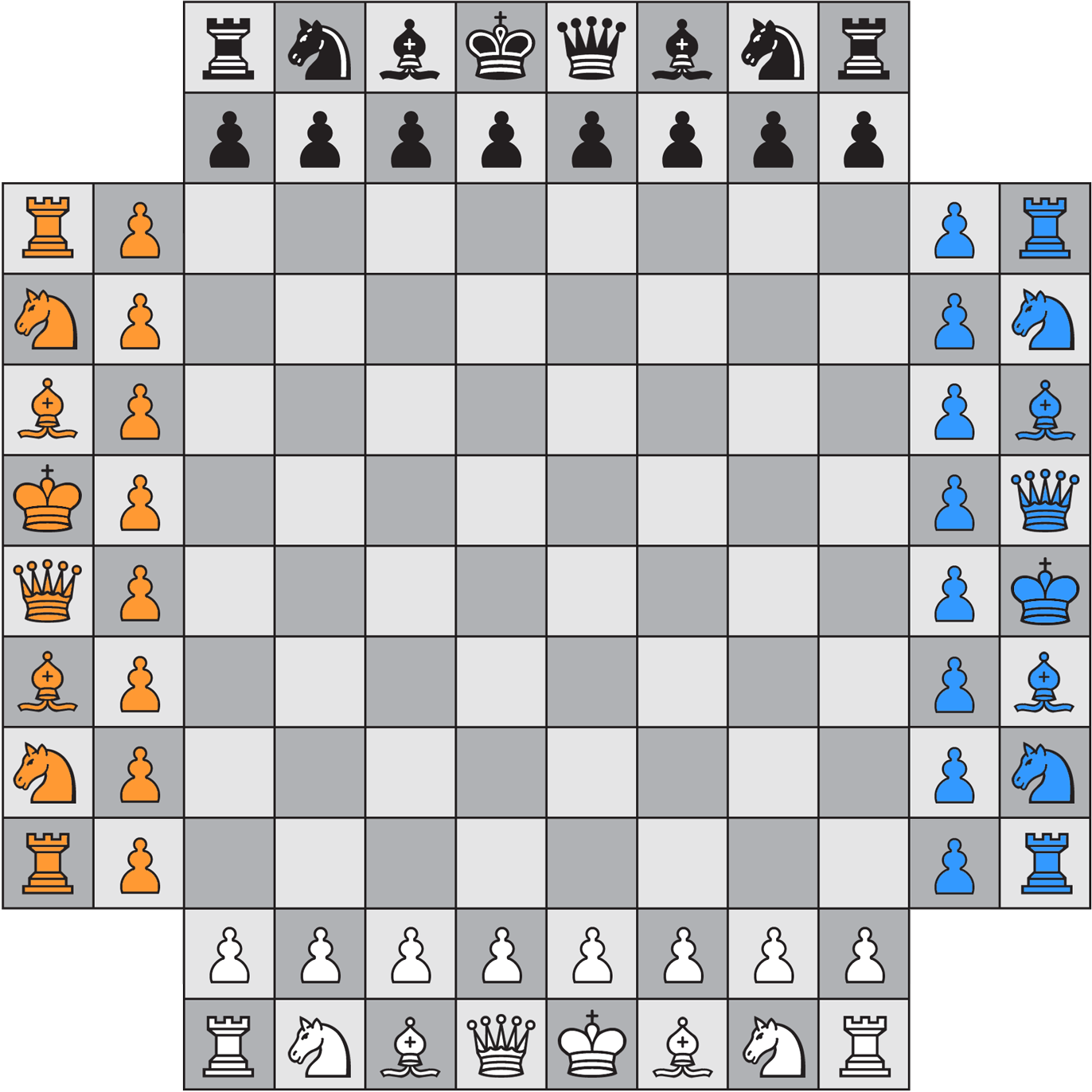 The four-handed chess board.